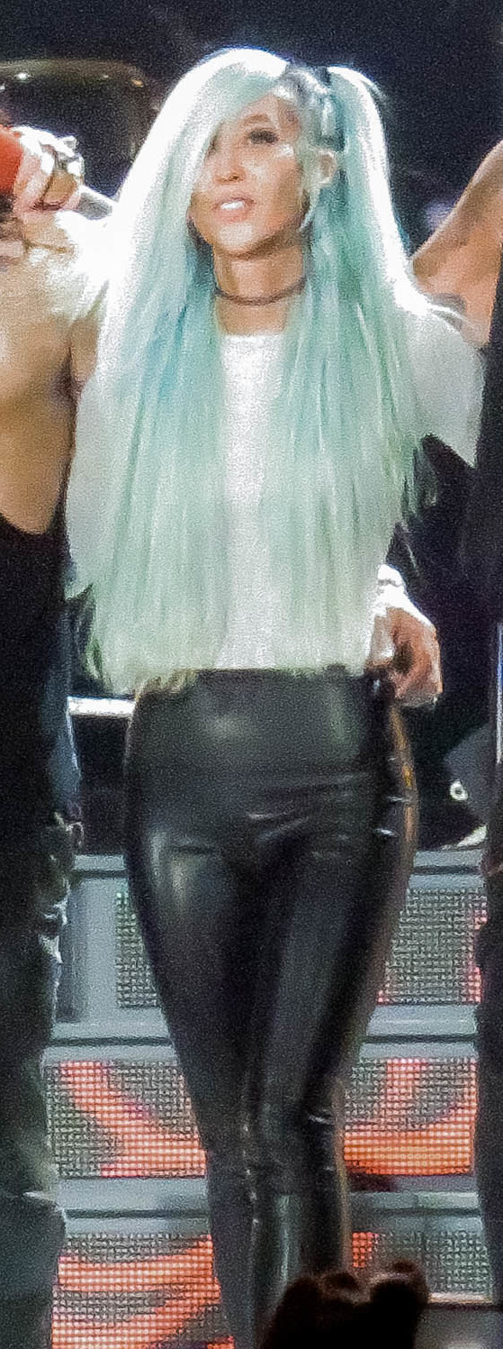 Guns n´Roses at Palacio de los Deportes 30/11/2016